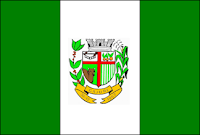 Flags of the city of Cajuri, Minas Gerais, Brazil.